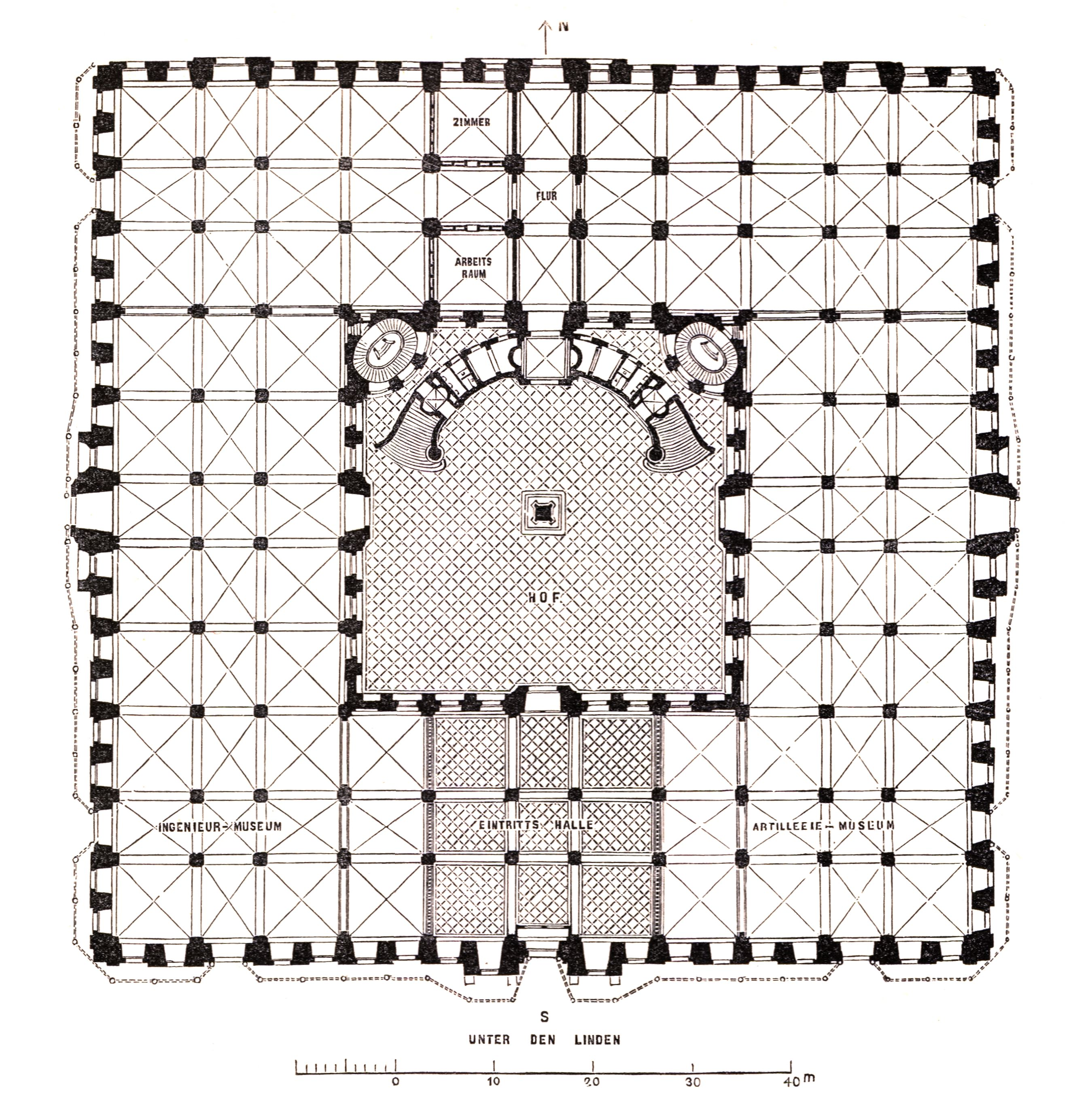 Berlin - Zeughaus, plan ground floor after modification by Friedrich Hitzig 1877-1880